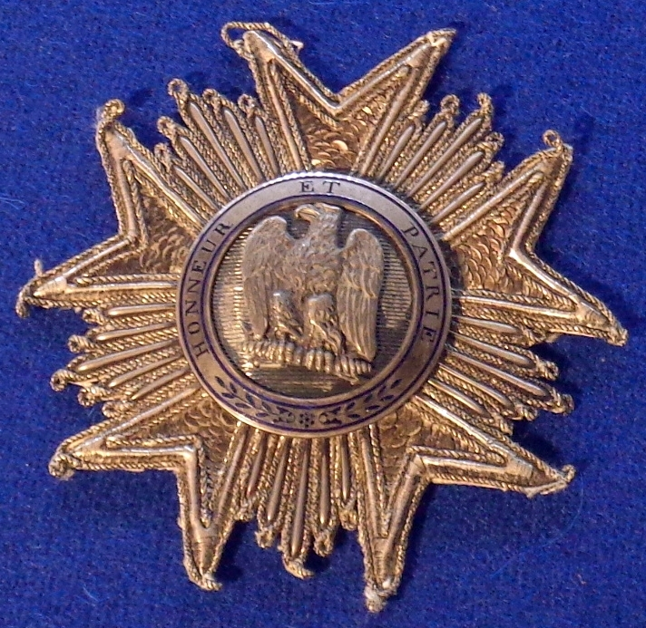 Order of the Legion of Honour, star, 1804-1814. French Empire. The exhibition of the Tallinn Museum of Orders of Knighthood, Estonia.